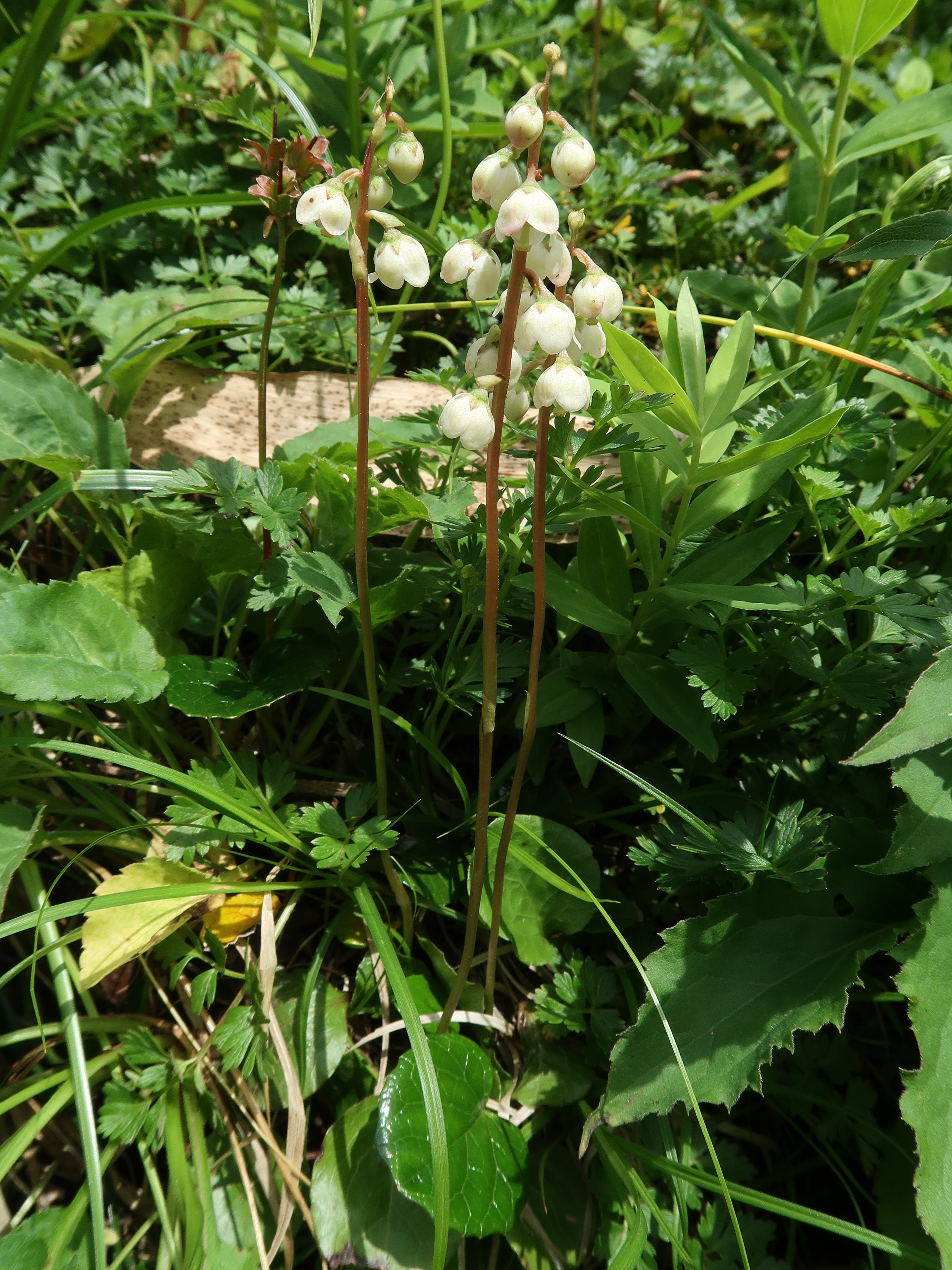 Pyrola faurieana, Zao mountain range, Miyagi pref., Japan